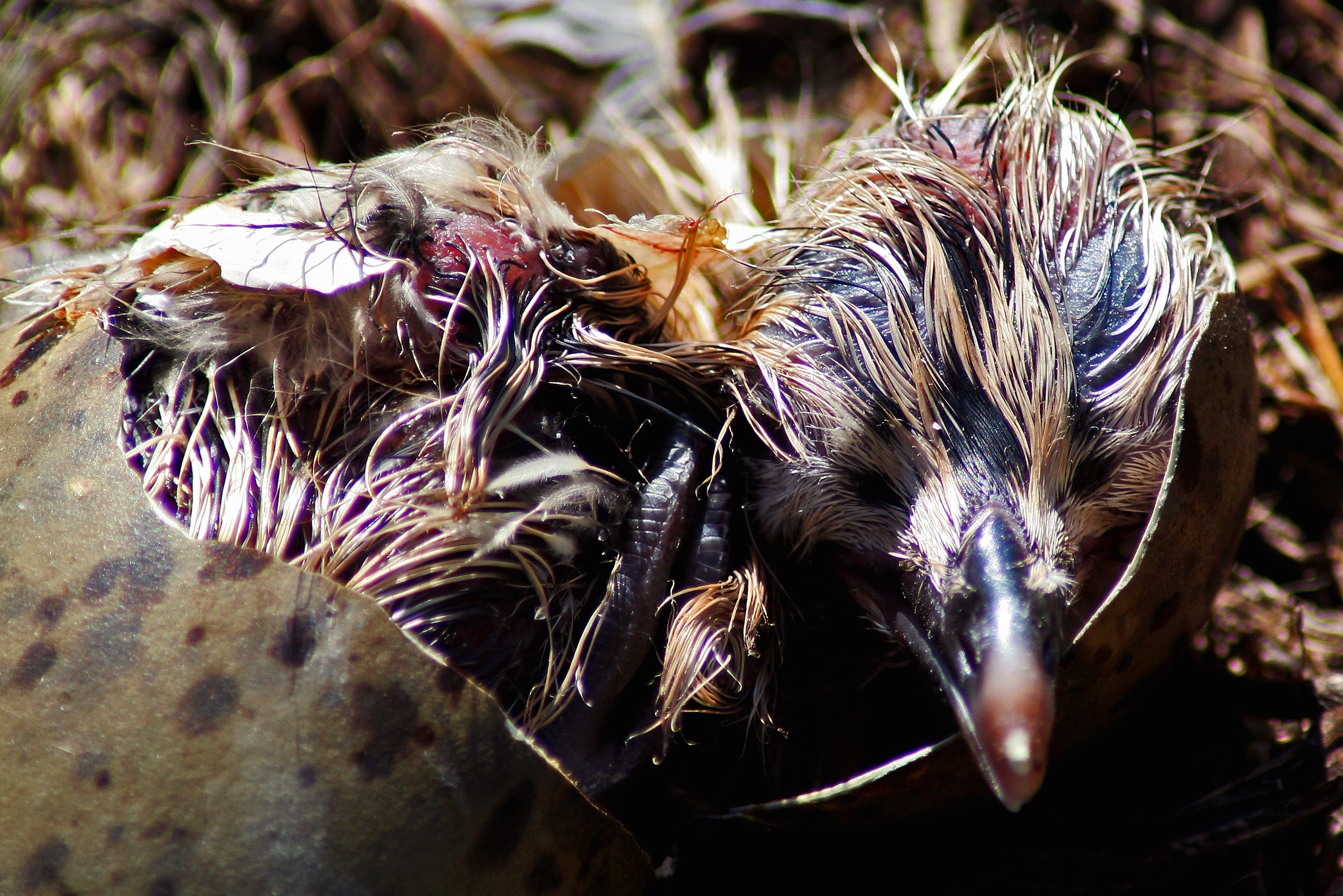 Newly-hatched Lesser Black-backed Gull (Larus fuscus) chick, Steep Holme, in the Bristol Channel.